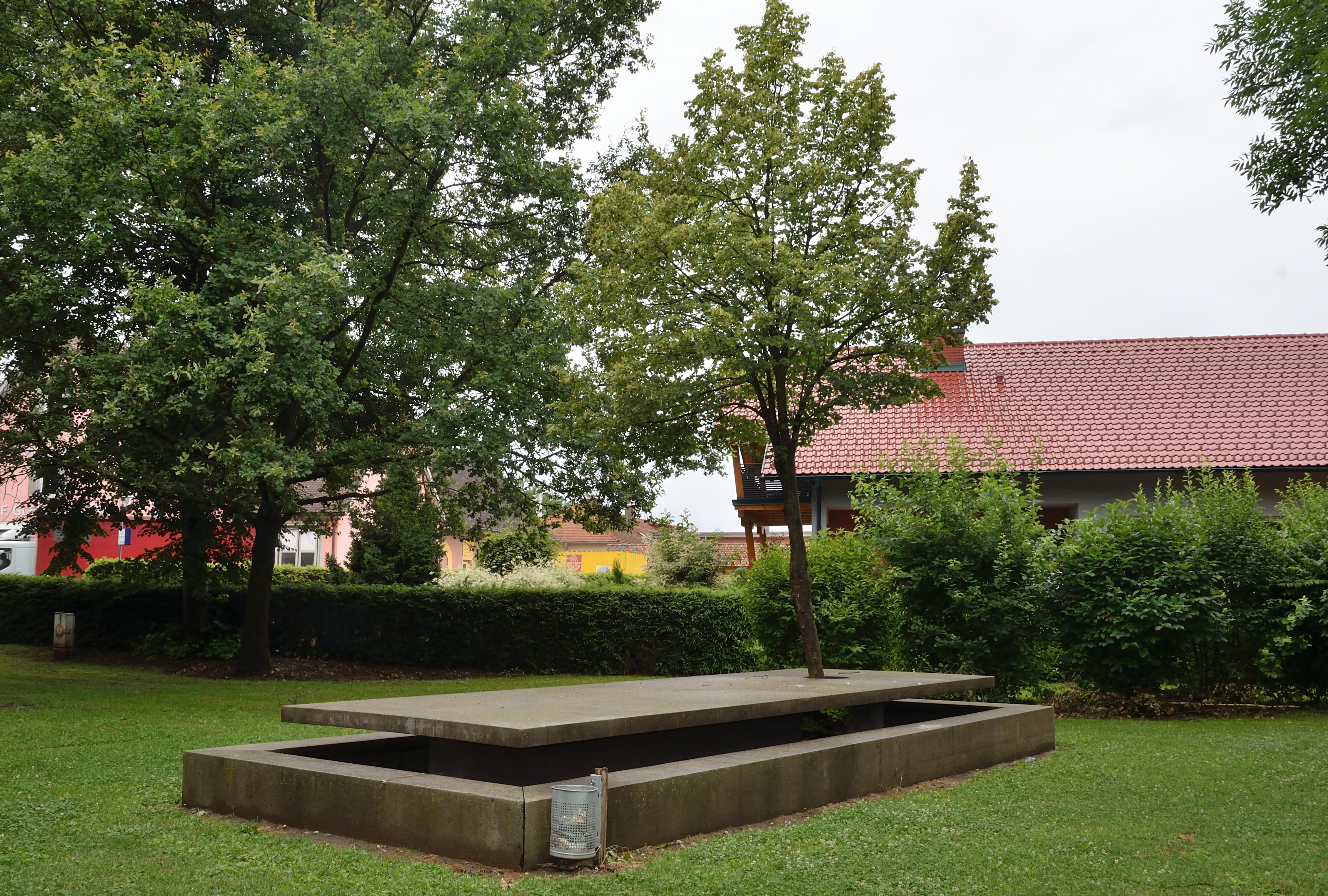 Tisch (table) by Wilhelm Scherübl at the park of castle Gleinstätten, project LandArt Park und Au Schloss Gleinstätten 2005.